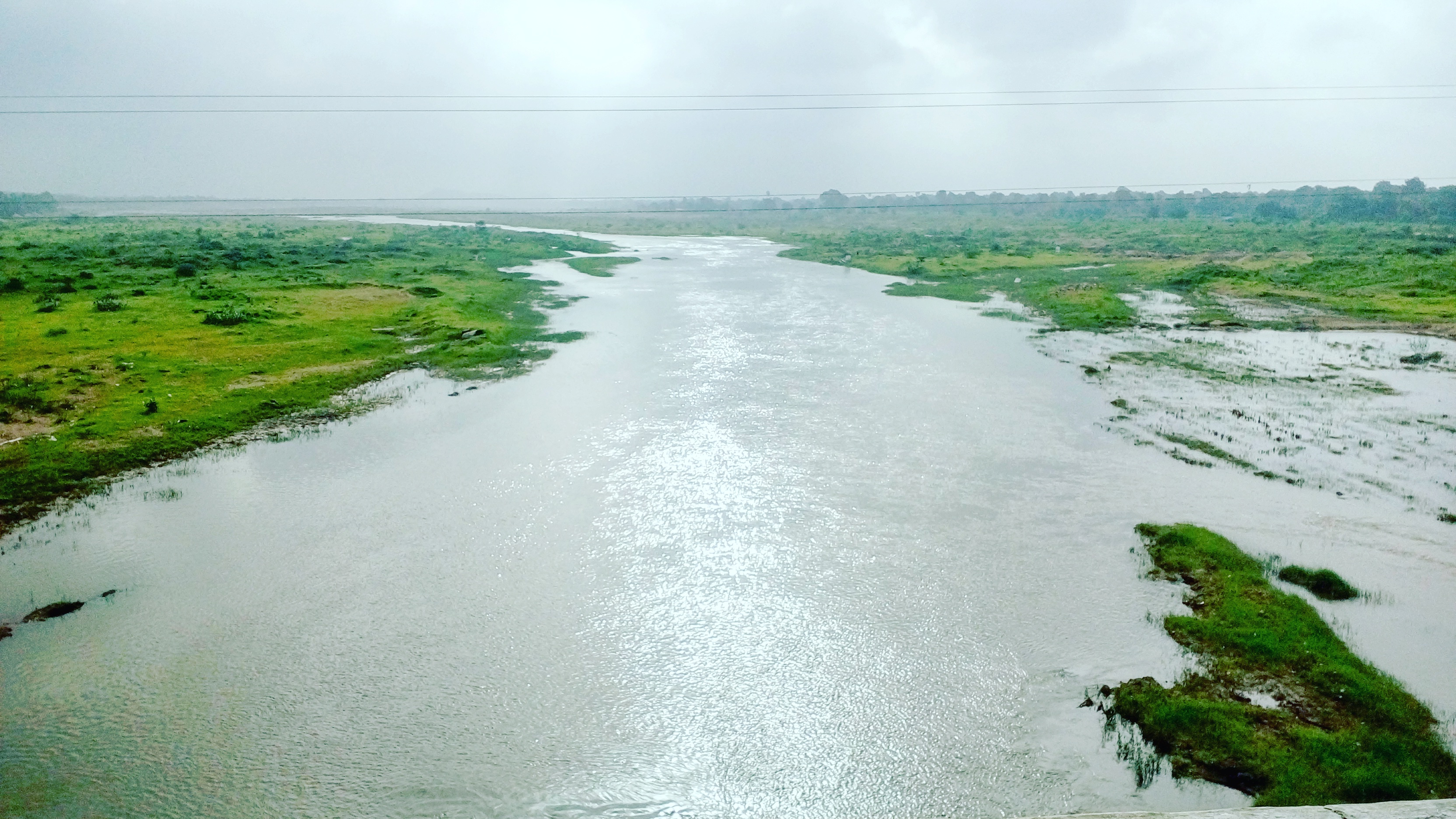 Orsang river passing at bodeli